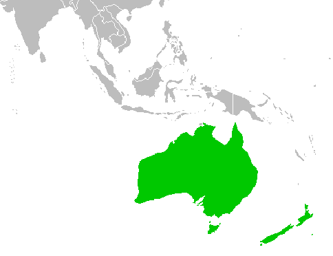 Open border between Australia and New Zealand.